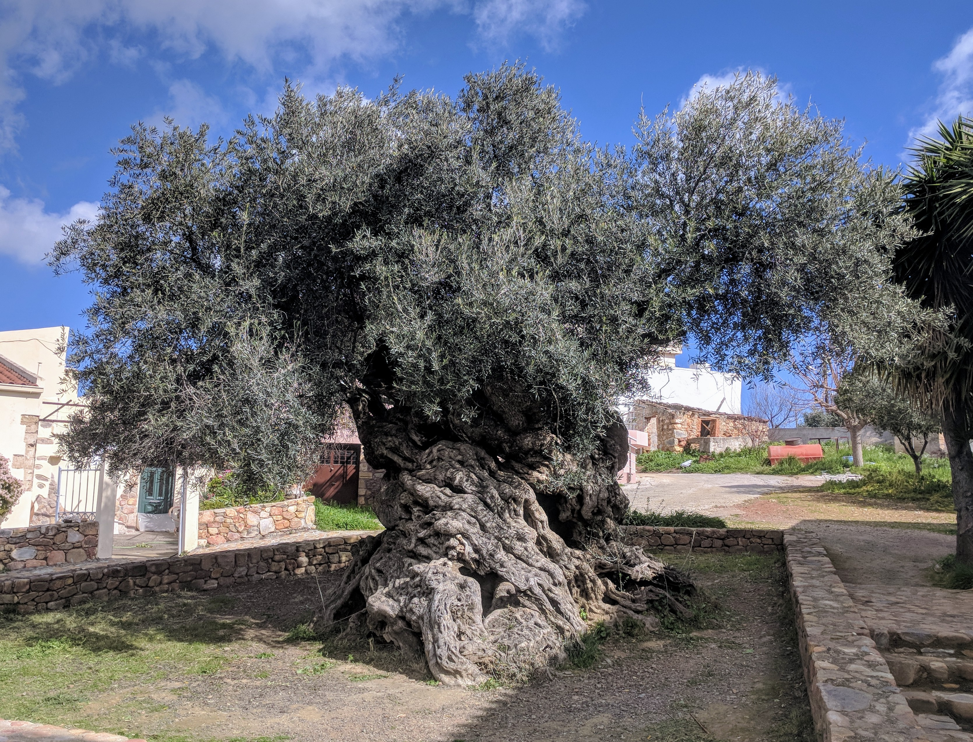 A photo of the more than 2000 years old Olive tree of Vouves in the village of Ano Vouves in Crete, Greece.